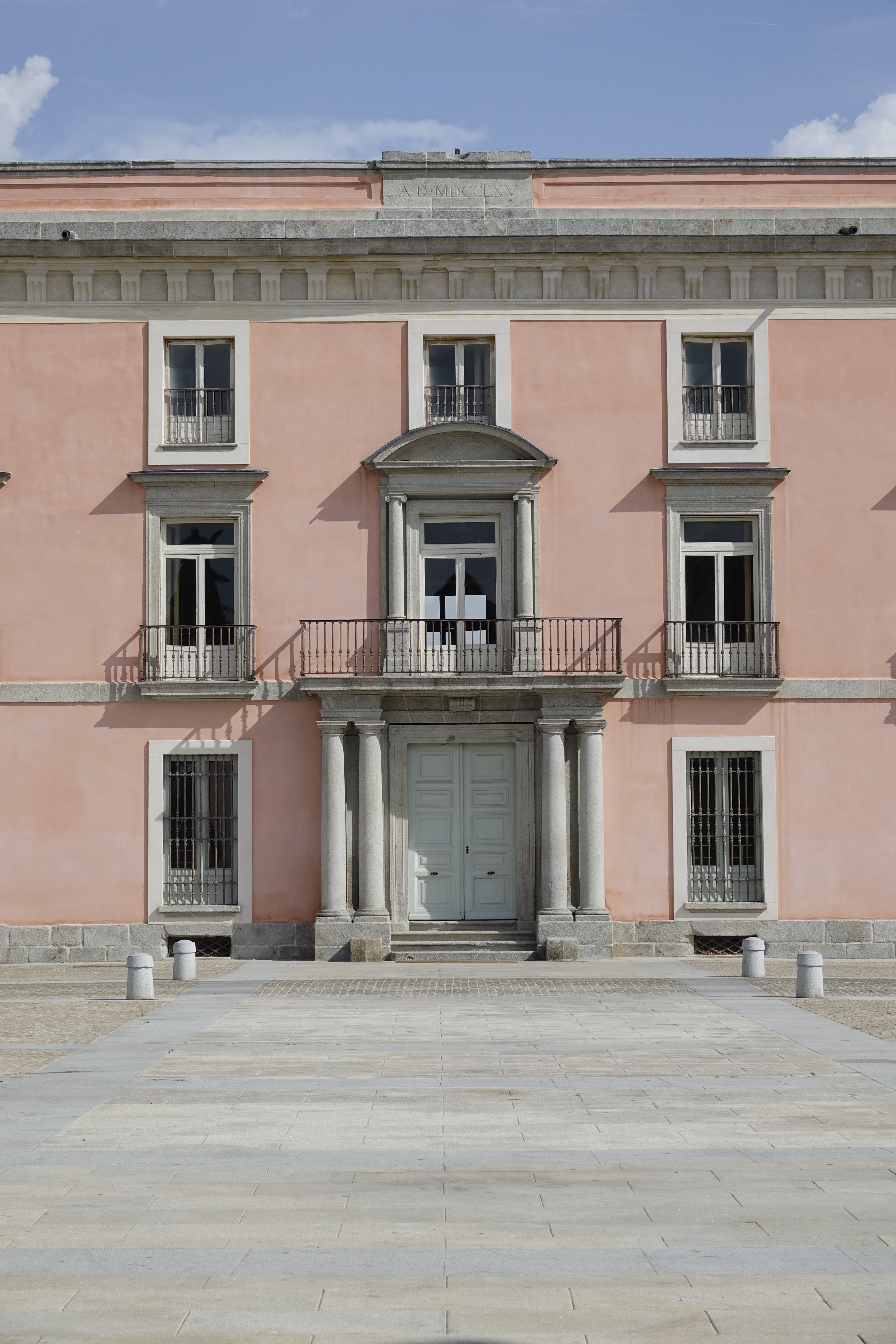 Façade of Palace of Infante don Luis, built in 1765 and located in Boadilla del Monte, (Community of Madrid), Spain.